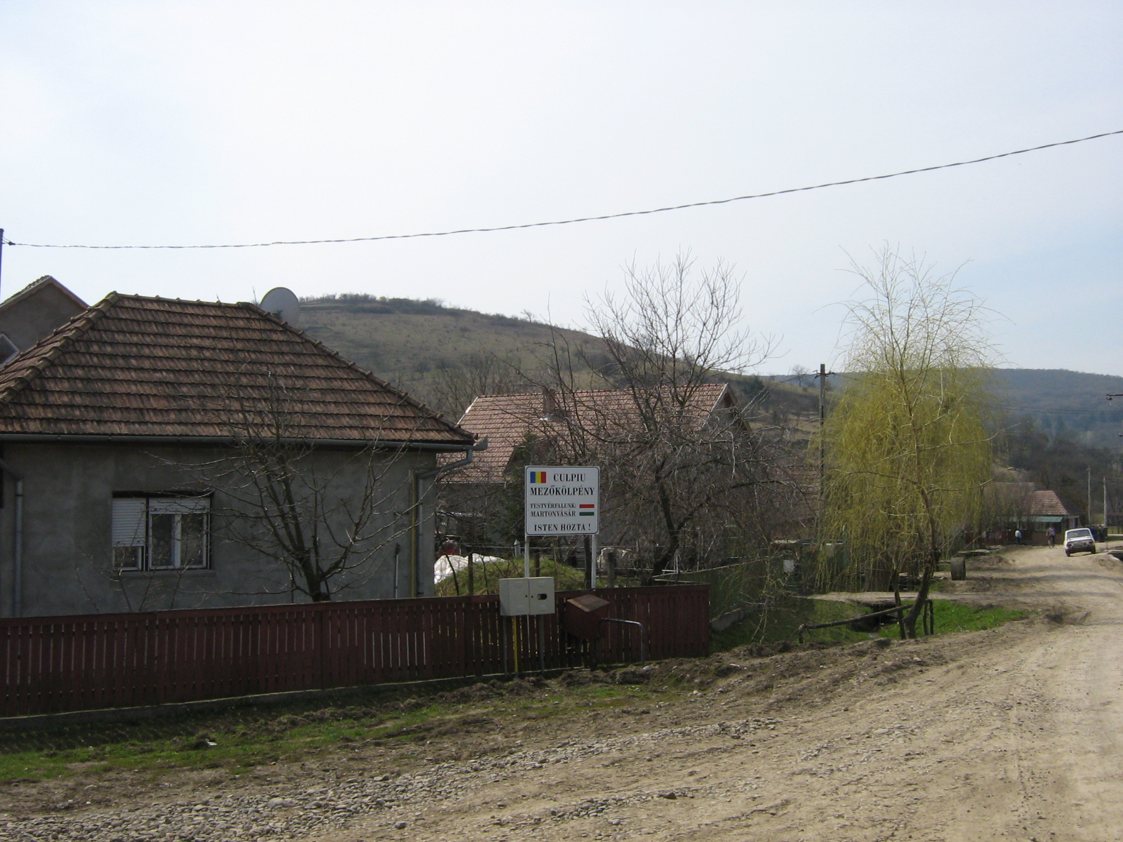 Culpiu, village in Mures county, Romania